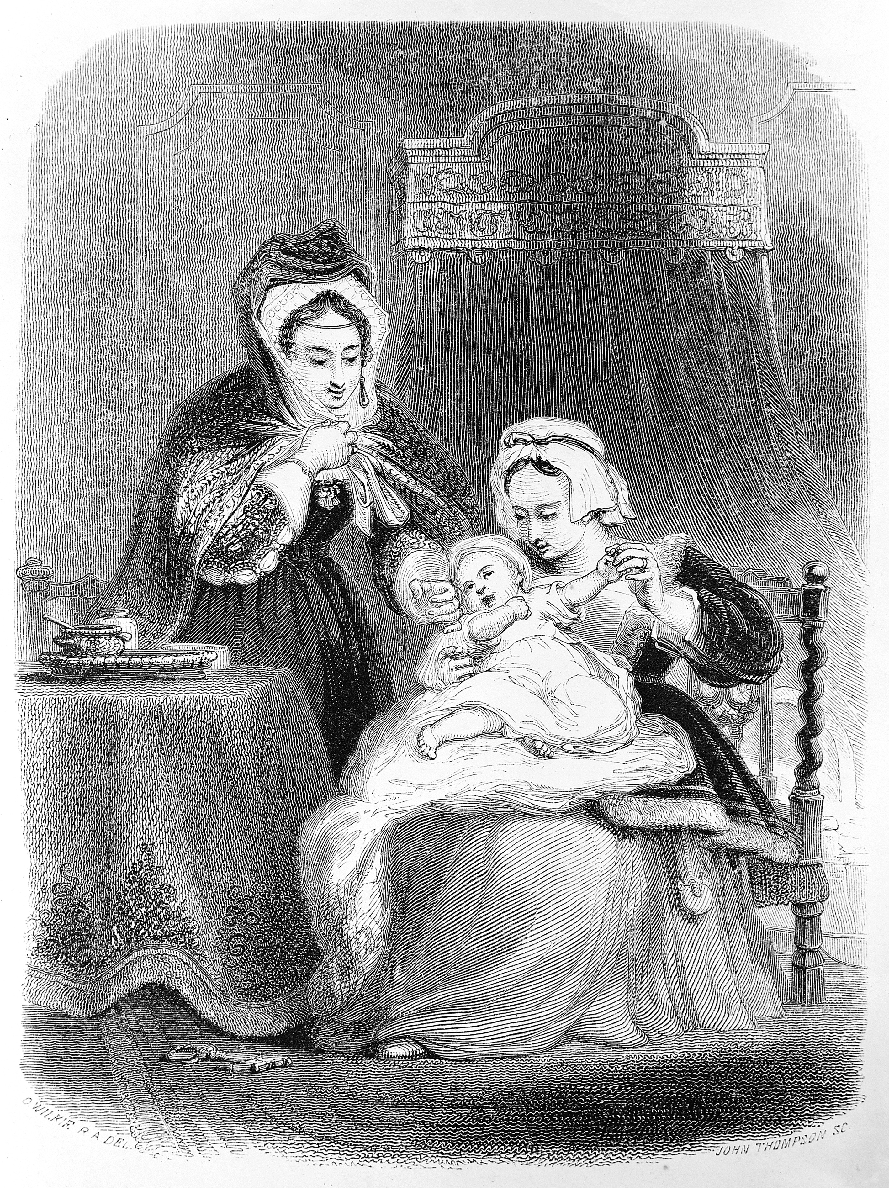 "The Monthly Nurse". Wellcome Images Keywords: David Wilkie